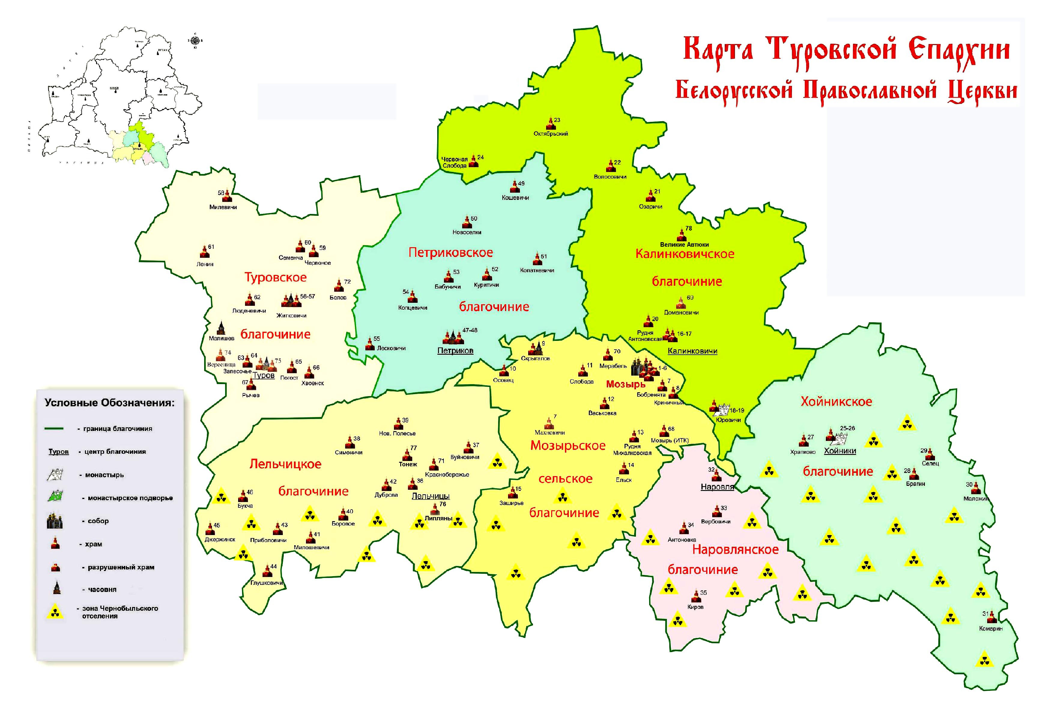 Map deaneries Turov diocese